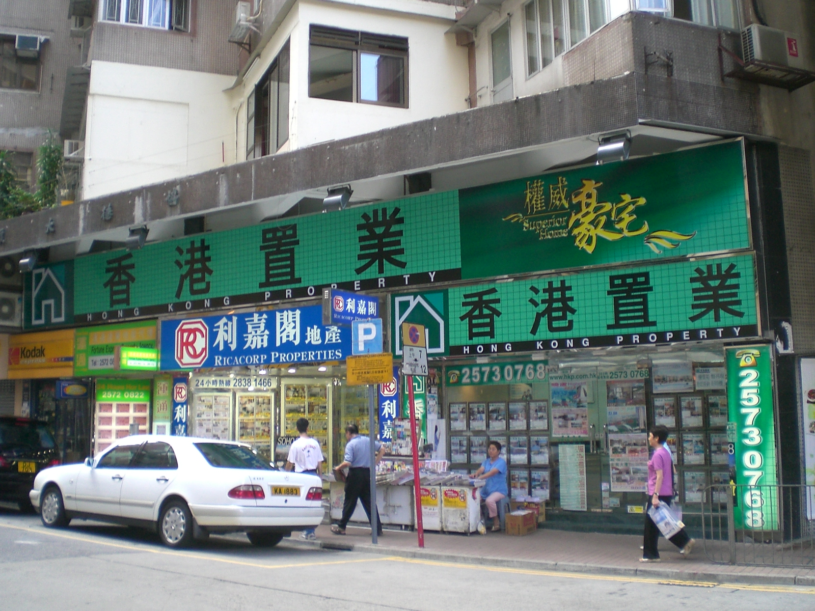 跑馬地成和道香港置業